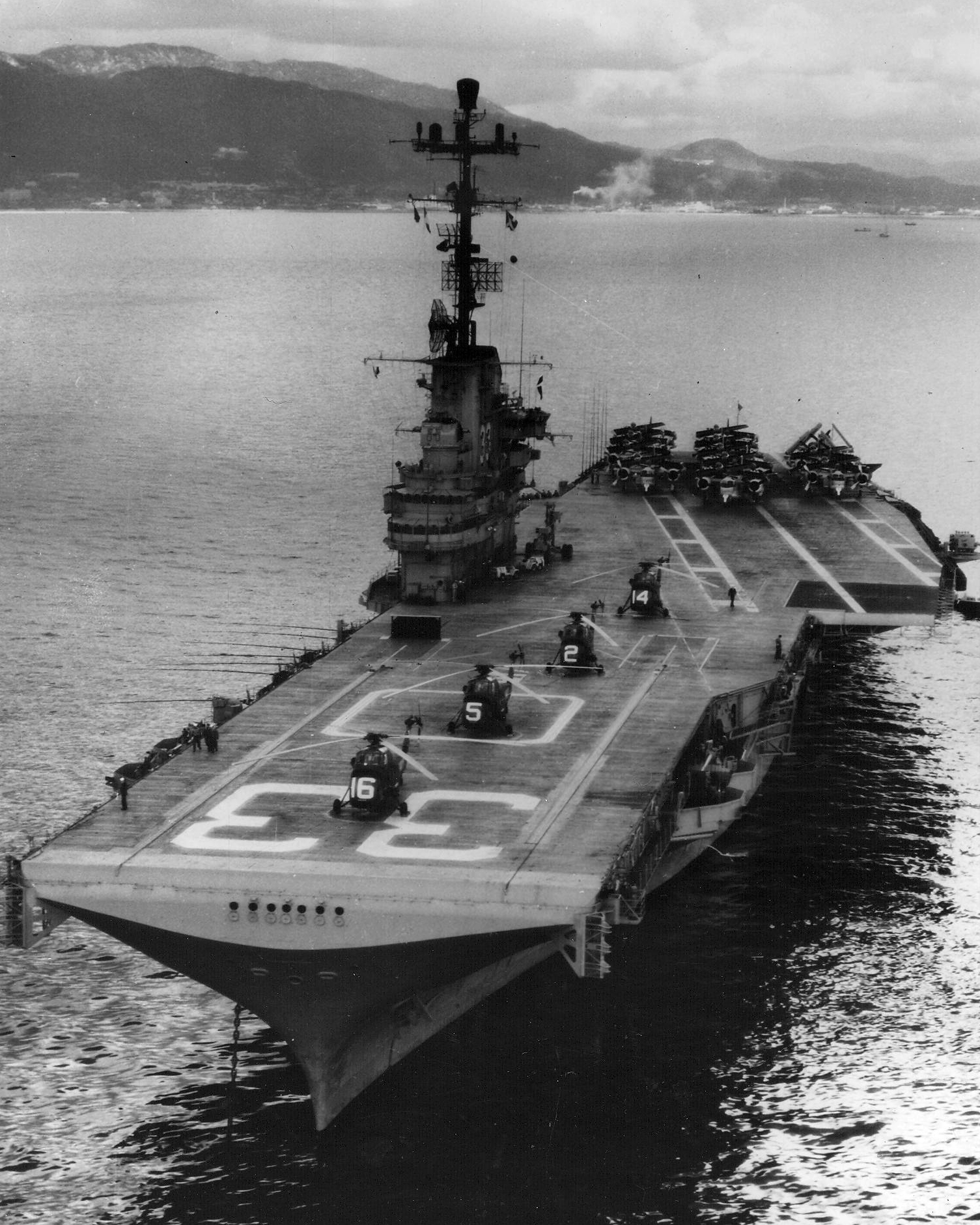 The U.S. Navy aircraft carrier USS Kearsarge (CVS-33) at anchor at Kobe, Japan, in 1959. Kearsarge was deployed to the Western Pacific from 5 September 1959 to 15 March 1960. On deck are four Sikorsky HSS-1 Seabat helicopters of Helicopter Anti-Submarine Squadron HS-6 "Indians", eleven Grumman S2F-1 Tracker of Anti-Submarine Squadron VS-21 "Lightning Bolts" and two Douglas AD-5W Skyraider of airborne Early Warning Squadron VAW-13 Det.A "Zappers".